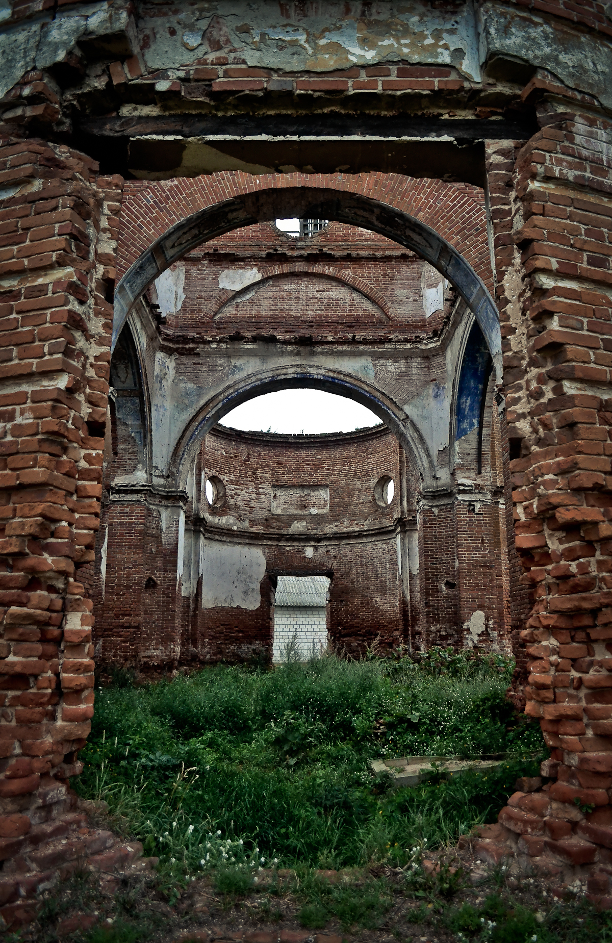 Беларуская (тарашкевіца): Царква. в. Леніна This is a photo of Belarusian heritage monument. Reference number: 313Г000264 ( WLM)